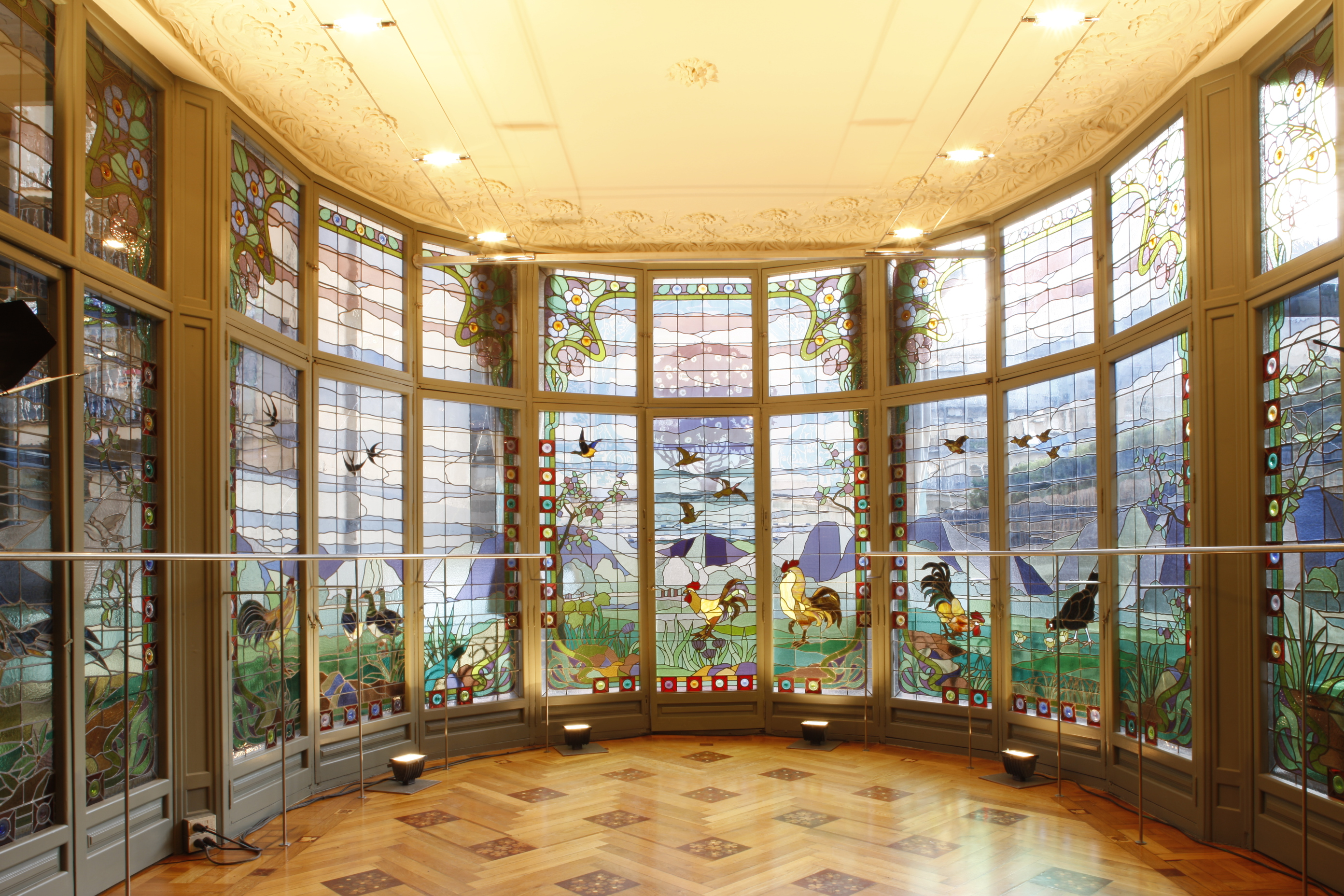 Casa Lleó i Morera. First Floor.